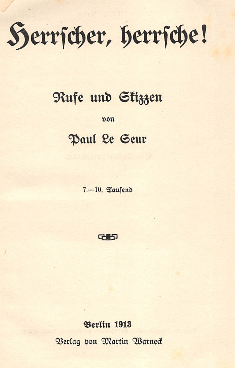 Paul Le Seur: Herrscher, herrsche! Rufe und Skizzen. Berlin 1913.